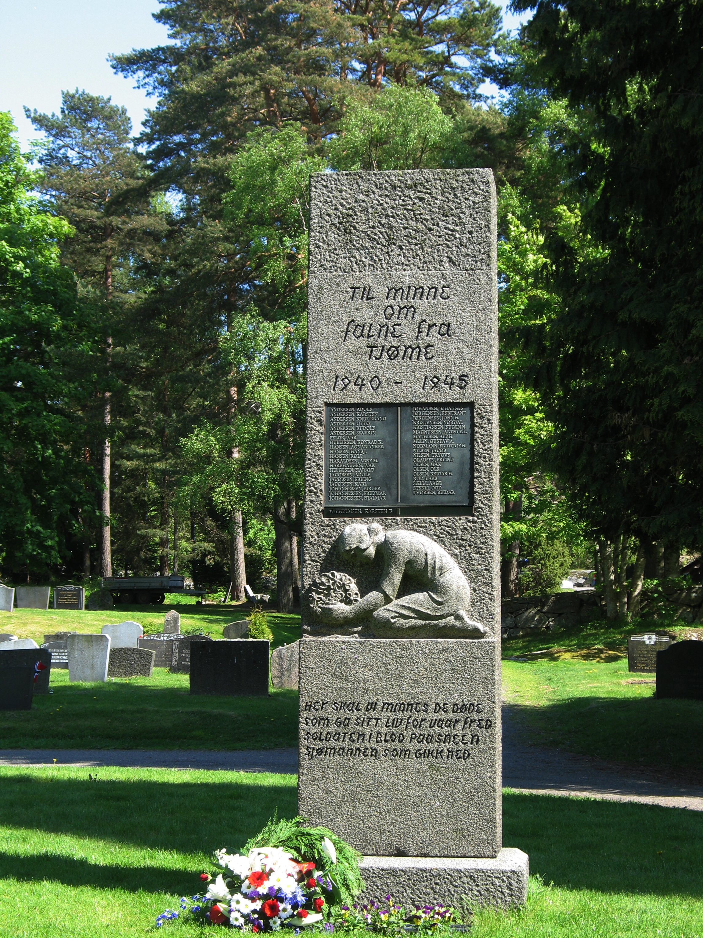 Second World War memorial in the cemetery outside Tjøme Church on the island of Tjøme, Færder, Norway.